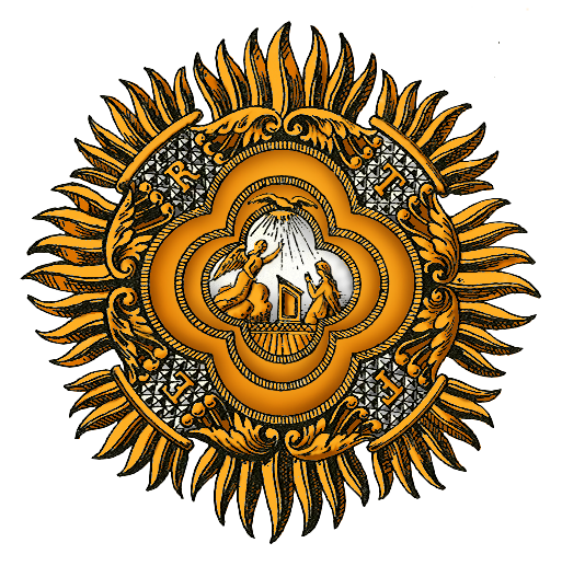 The Placque or Star of the Supreme Order of the Most Holy Annunciation.